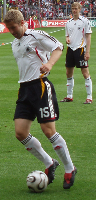 Thomas Hitzlsperger